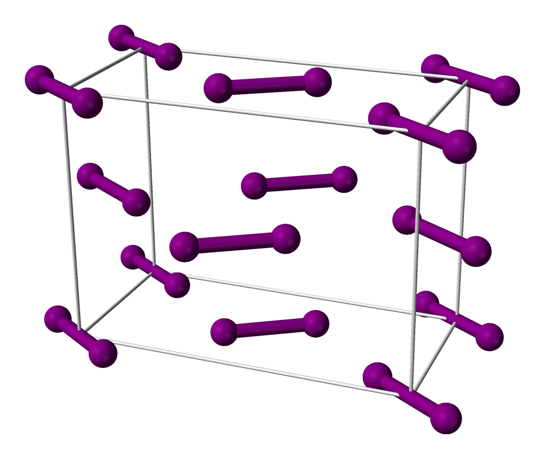 Ball-and-stick model of the unit cell of iodine. Crystal structure data from Wyckoff (1963) Crystal Structures - Second Edition, Volume 1. John Wiley, New York. Image generated in Accelrys DS Visualizer.